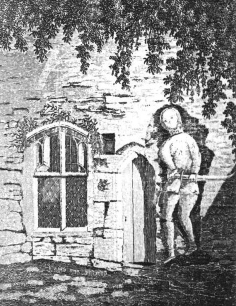 Engraving of St Robert's Chapel, Knaresborough, Yorkshire, England; from The History of the Castle, Town, and Forest of Knaresborough, with Harrogate (1789, 4th edition) by Ely Hargrove.